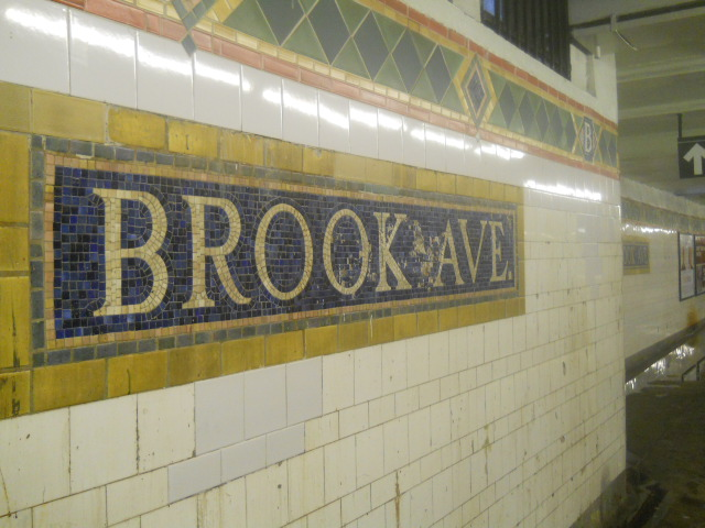 Mosaic Tile for Brook Avenue on the 6 line